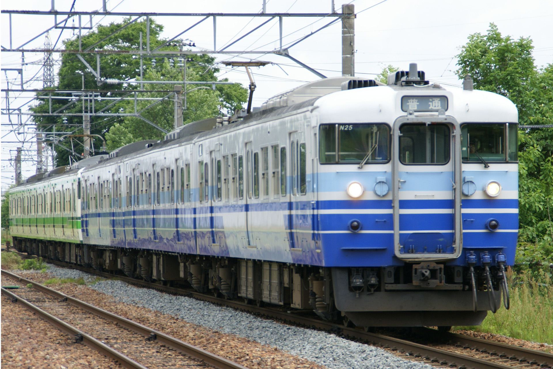 A pair of JR East 115 series 3-car EMUs approaching Toyosaka Station on a Hakushin Line service to Niigata